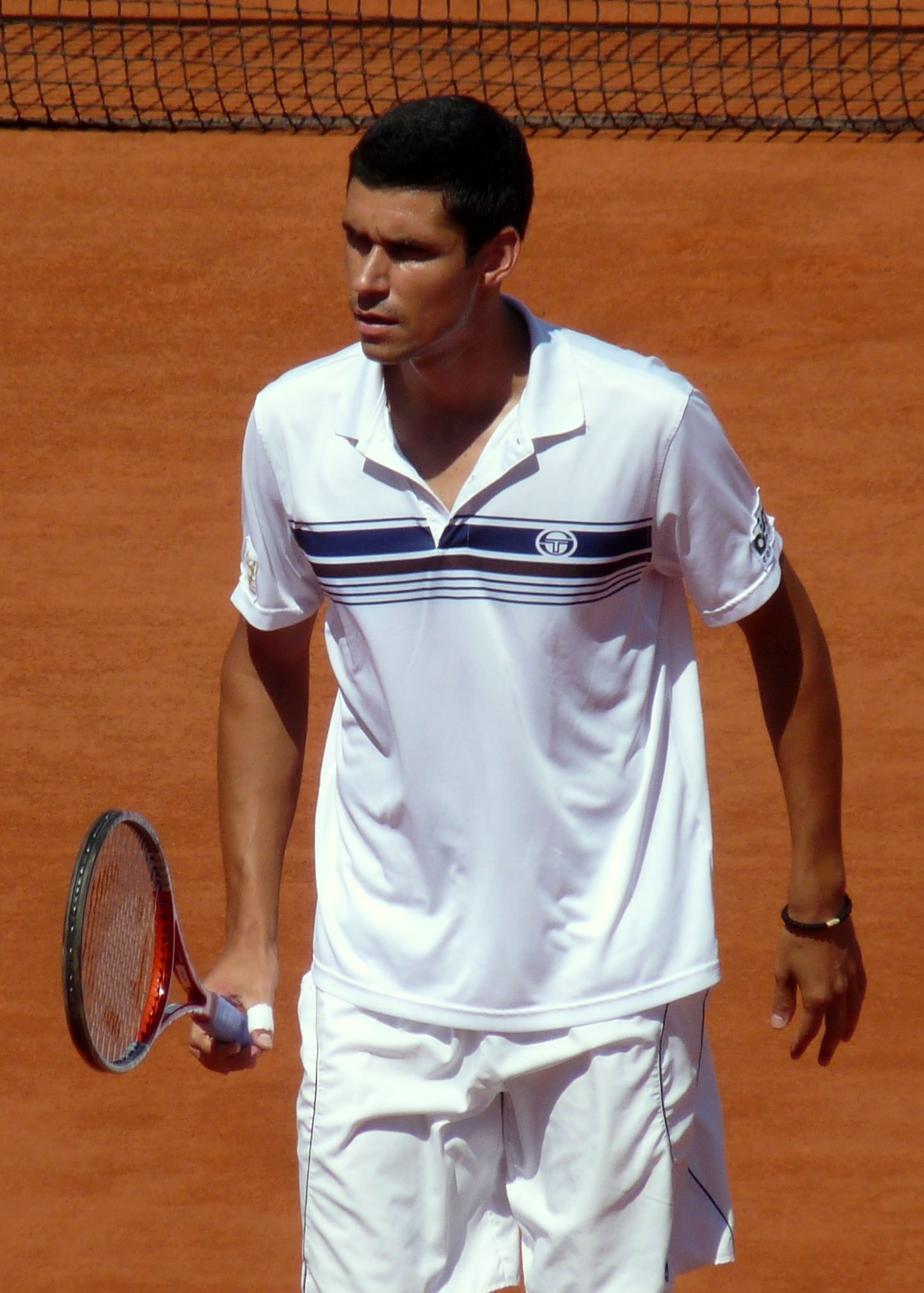 Victor Hănescu against Gilles Simon in the 2009 French Open third round